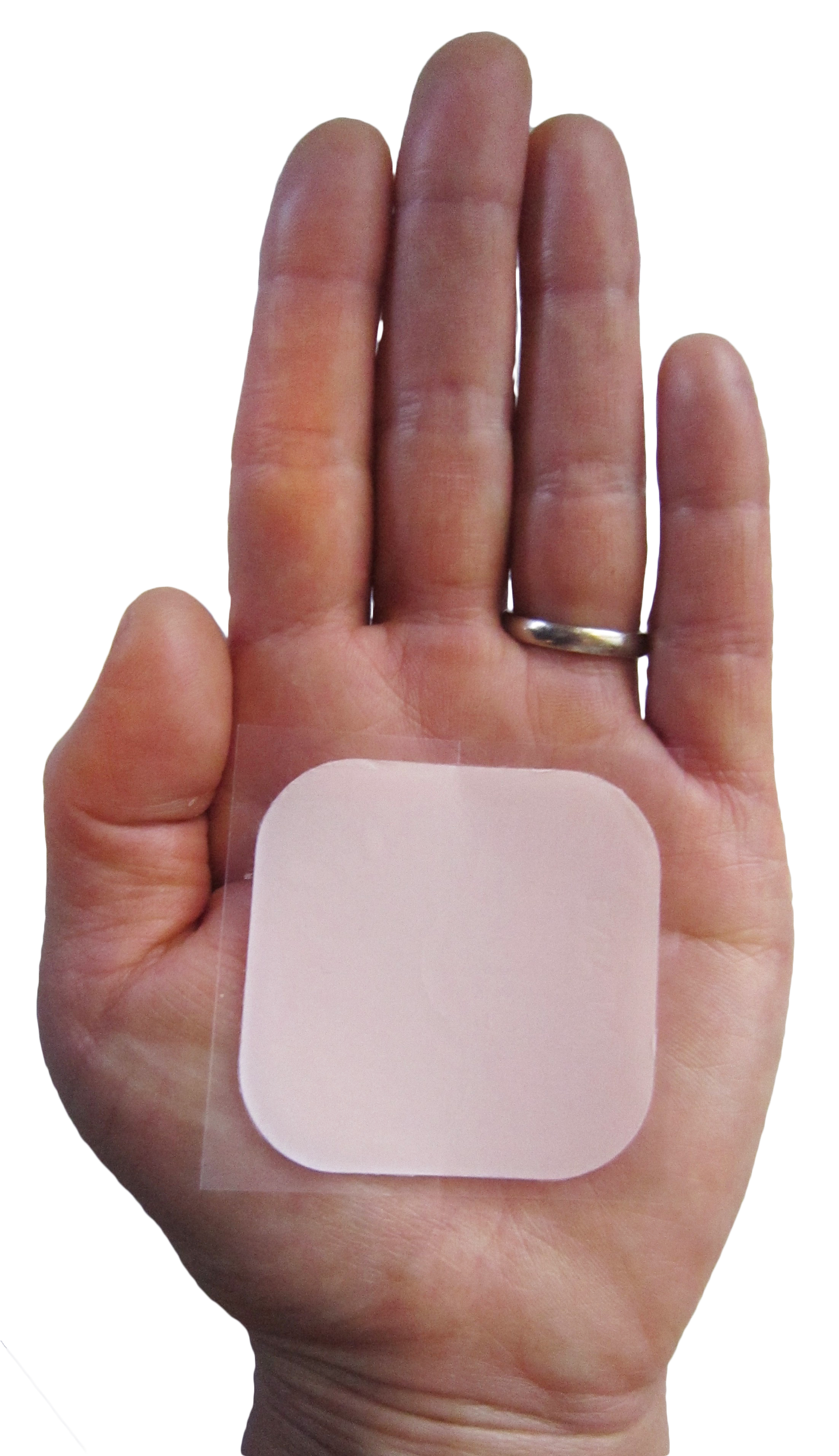 An Ortho Evra birth control patch with the plastic backing still on.